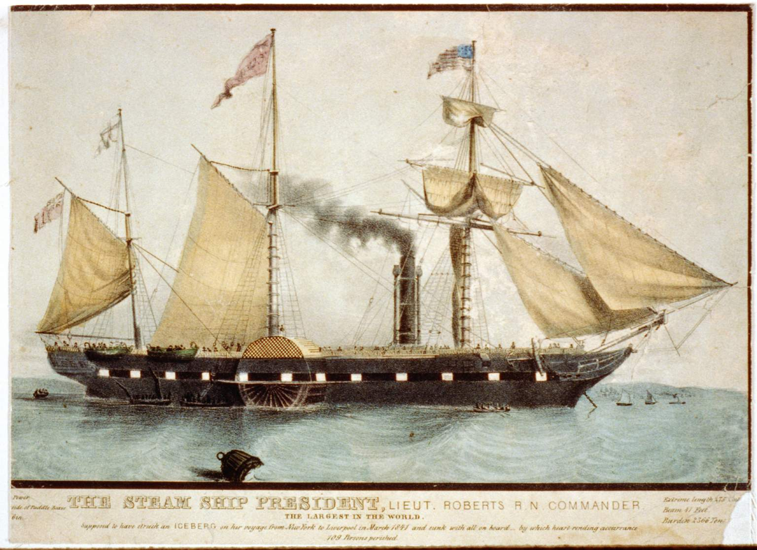 Original caption: “The Steam Ship President, Lieut. Roberts R.N. Commander. The Largest in the World. Supposed to have struck an ICEBERG on her voyage from New York to Liverpool in March 1841 and sunk with all on board ... by which heart-rending accurrence [sic] 109 Persons perished. Extreme length 275 Feet; Beam 41 Feet; Burden 2366 Tons.” (The original's left margin has been cut off.) The supposition of an iceberg as the culprit was a later notion; the available evidence makes it unlikely.